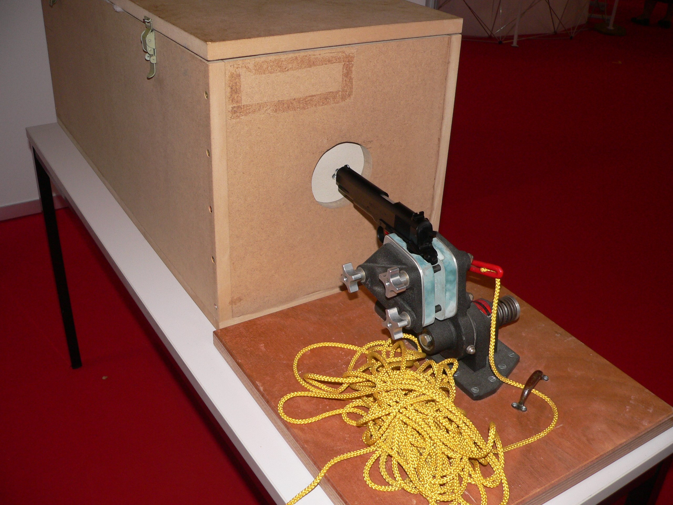 Forensic ballistics